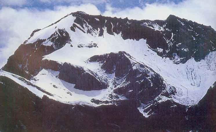 Photograph of Om Parvat. Shivam Chaturvedi is the author.